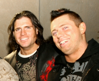 John “Morrison” Hennigan, and Mike “Miz” Mizanin (right) during the “Tribute to the Troops” tour aboard Camp Ramadi, Iraq, Dec. 3.